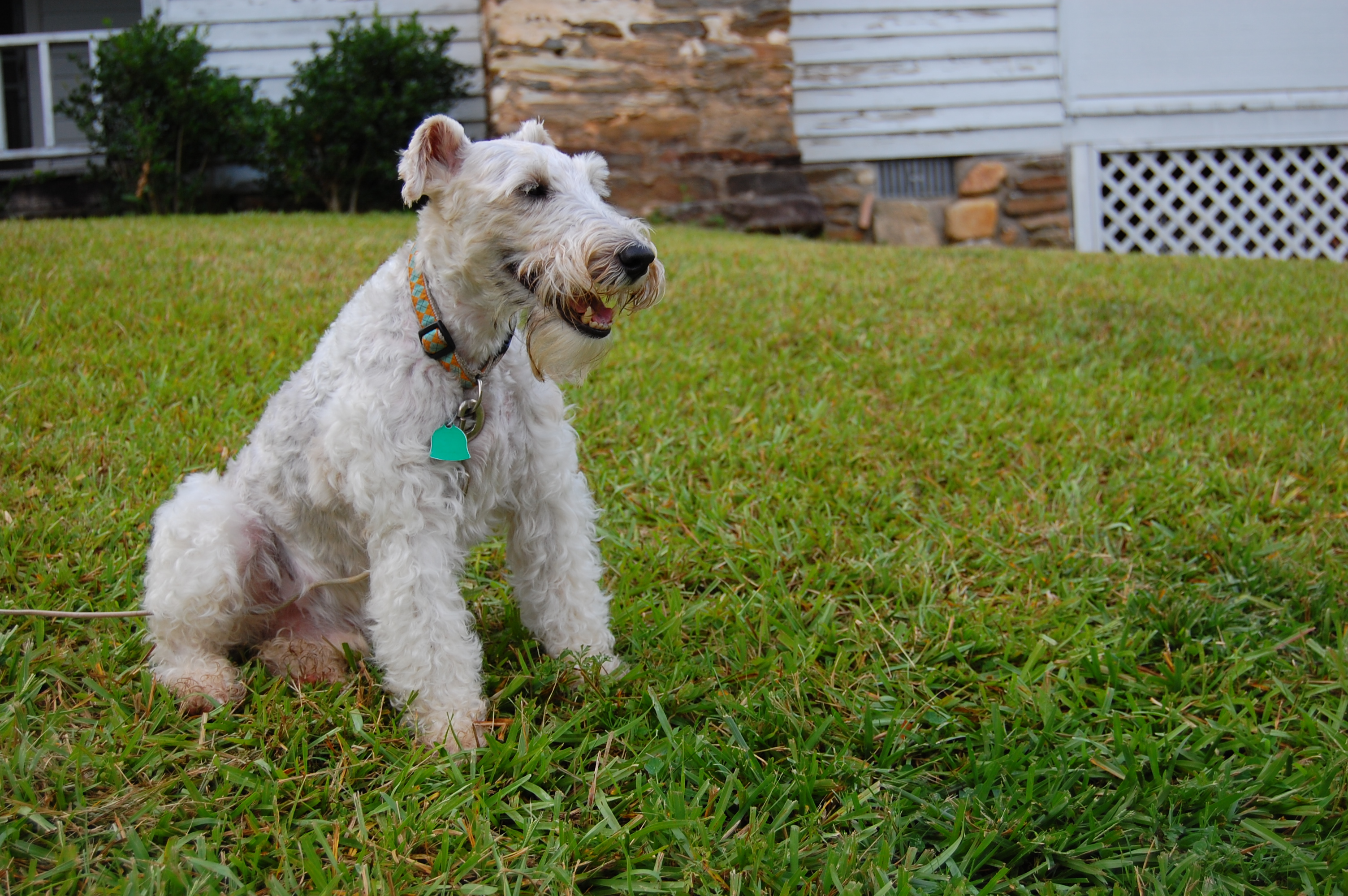 Photograph of a Wire Fox Terrier sitting down.